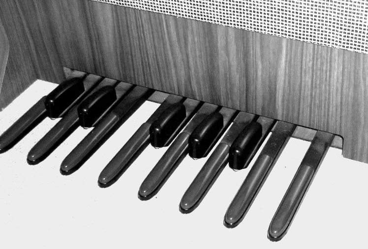 Pedalboard of Hammond organ